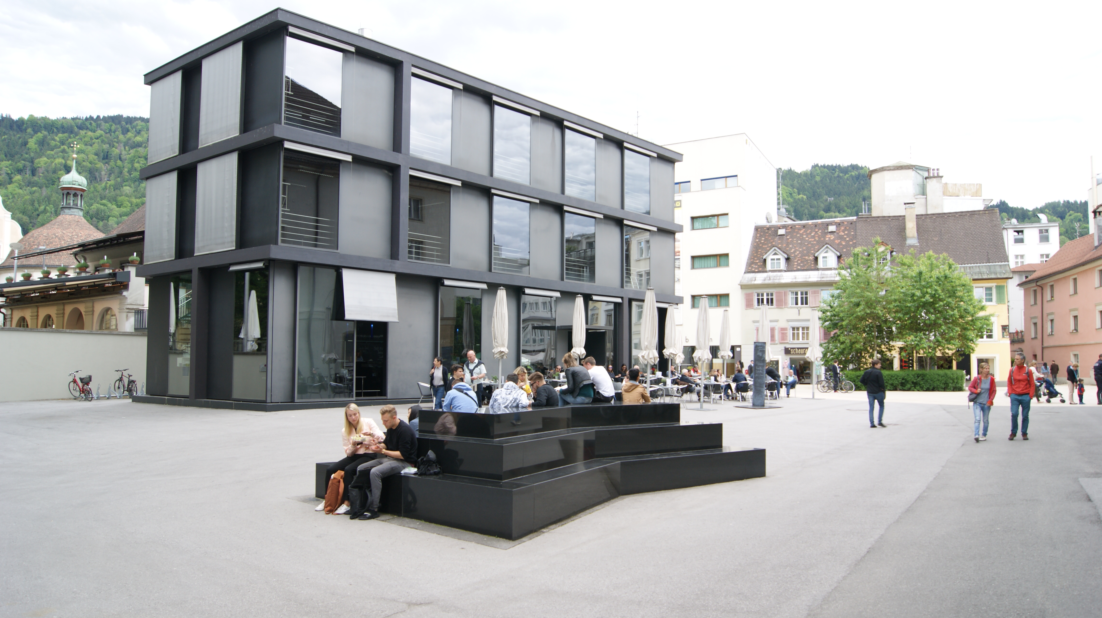 Bregenz, sculpture segno arte of Michelangelo Pistoletto in front of the house of arts Bregenz (KUB). In the background the office building of the house of arts and the restaurant.